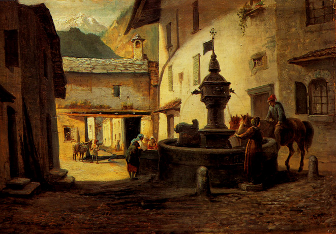 stop at the fountain